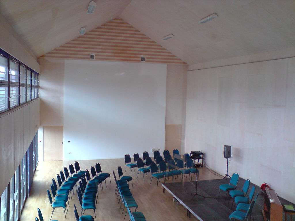 Village Hall, Raasay, Scotland.